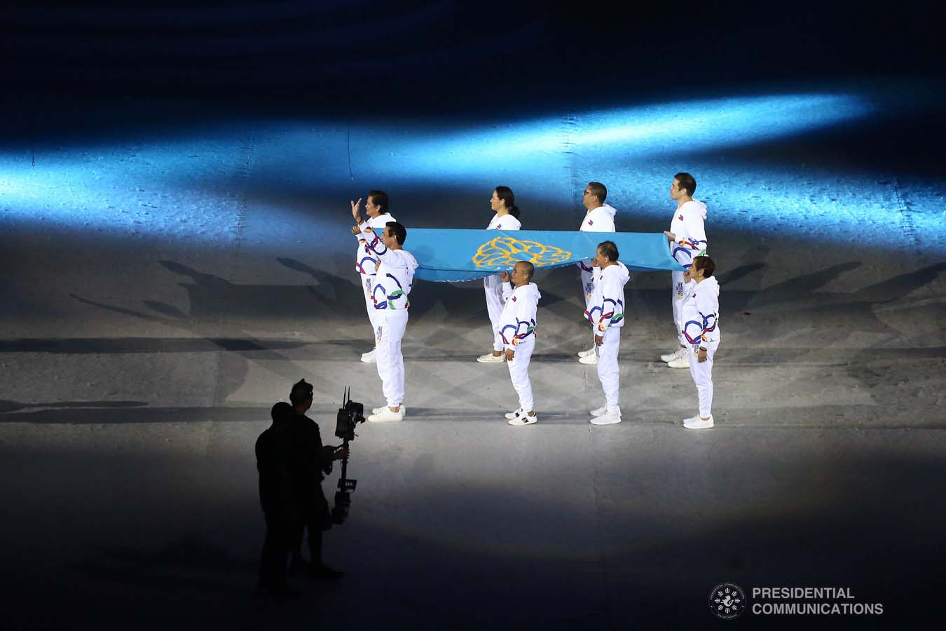 Sports legends Rafael “Paeng” Nepomuceno and Olivia “Bong” Coo (bowling), Efren “Bata” Reyes (billiards), Lydia de Vega-Mercado (athletics), Mansueto “Onyok” Velasco Jr. ( boxing), Joseph Eric Buhain and Gillian Akiko Thomson-Guevara (swimming), and Alvin Patrimonio ( basketball), carry the Southeast Asian (SEA) Games Federation flag during the opening ceremony of the 30th SEA Games at the Philippine Arena in Bocaue, Bulacan on November 30, 2019. REY BANIQUET/PRESIDENTIAL PHOTO